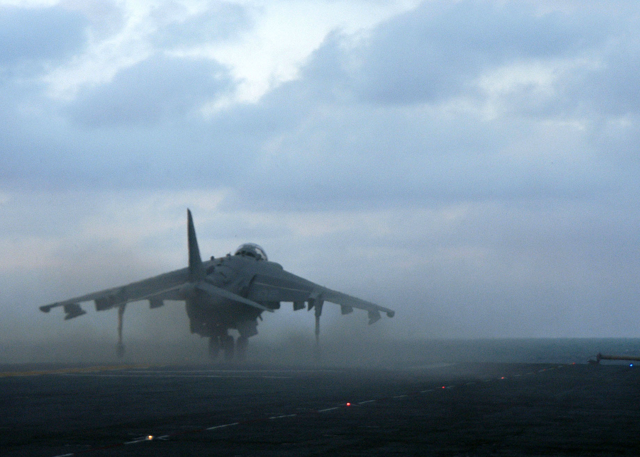 Atlantic Ocean (Oct. 13, 2005) – A U.S. Marine Corps AV-8B Harrier takes off from the flight deck of the amphibious assault ship USS Wasp (LHD 1). Wasp is currently conducting deck landing qualifications. U.S. Navy photo by Photographer's Mate Airman Robbie Stirrup (RELEASED)